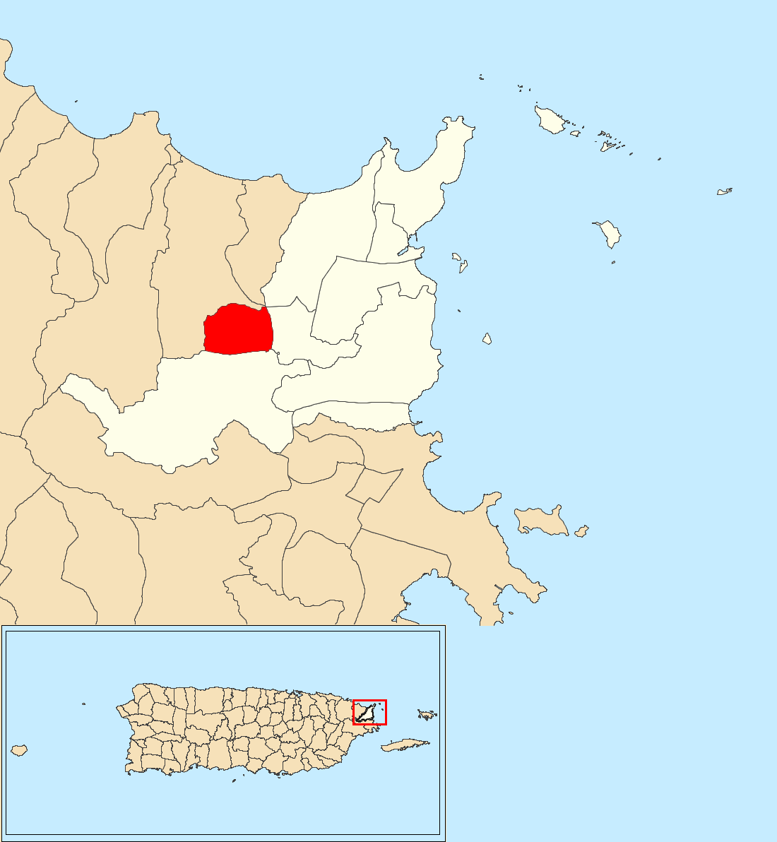 Naranjo, Fajardo, Puerto Rico locator map